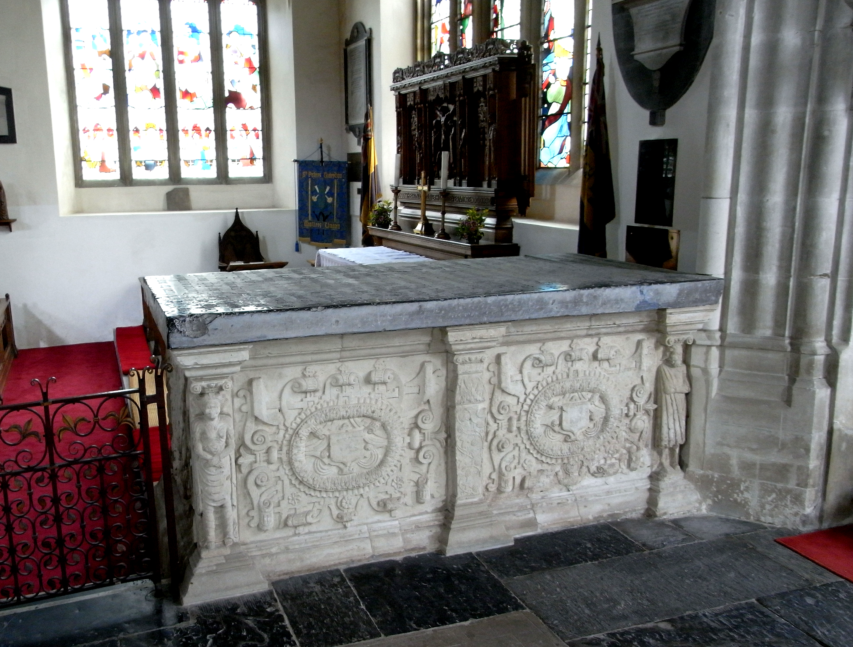 Chest tomb of George Slee (d.1 September 1613), merchant, St Peter's Church, Tiverton, Devon. George Slee of the Great House, Peter Street, Tiverton, was a wealthy merchant and founded Slee's Almshouses, next to his mansion house in Peter Street. The sides of the chest tomb are decorated with strapwork panels. Also displays Caryatids in the form of natives of the New World, or possibly Africa, with which regions he traded. The thick ledger stone on top is inscribed in Gothic lettering as follows: "Here under lieth buried the body of George Slee of Tiverton, marchant, who departed this life the first daie of September anno Domini 1613 ..... He gave by his will, to be distributed to the poorest people of Tiverton, £50; to the parish church and church-yard of Tiverton, £10; to and for the building of an alms-house, for six poor, aged, and honest women, and to purchase rents for their maintenance, at 12d. the week to each of them, £500; to fifty poor crafts-men, of good and honest fame, 100£; to the poorest, honest, and painfullest labourers in Tiverton, 10£; to the parish church of Coleridge, for the relief and keeping on work of the poorest people there, 10£; to the poor of the parish of Halberton, 40s; to the poor of the parish of Uplowman, 40s. He left behind him living, two sons and three daughters."[1]